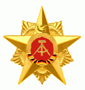 Grand Star of People's Friendship in Gold (Order of East Germany)